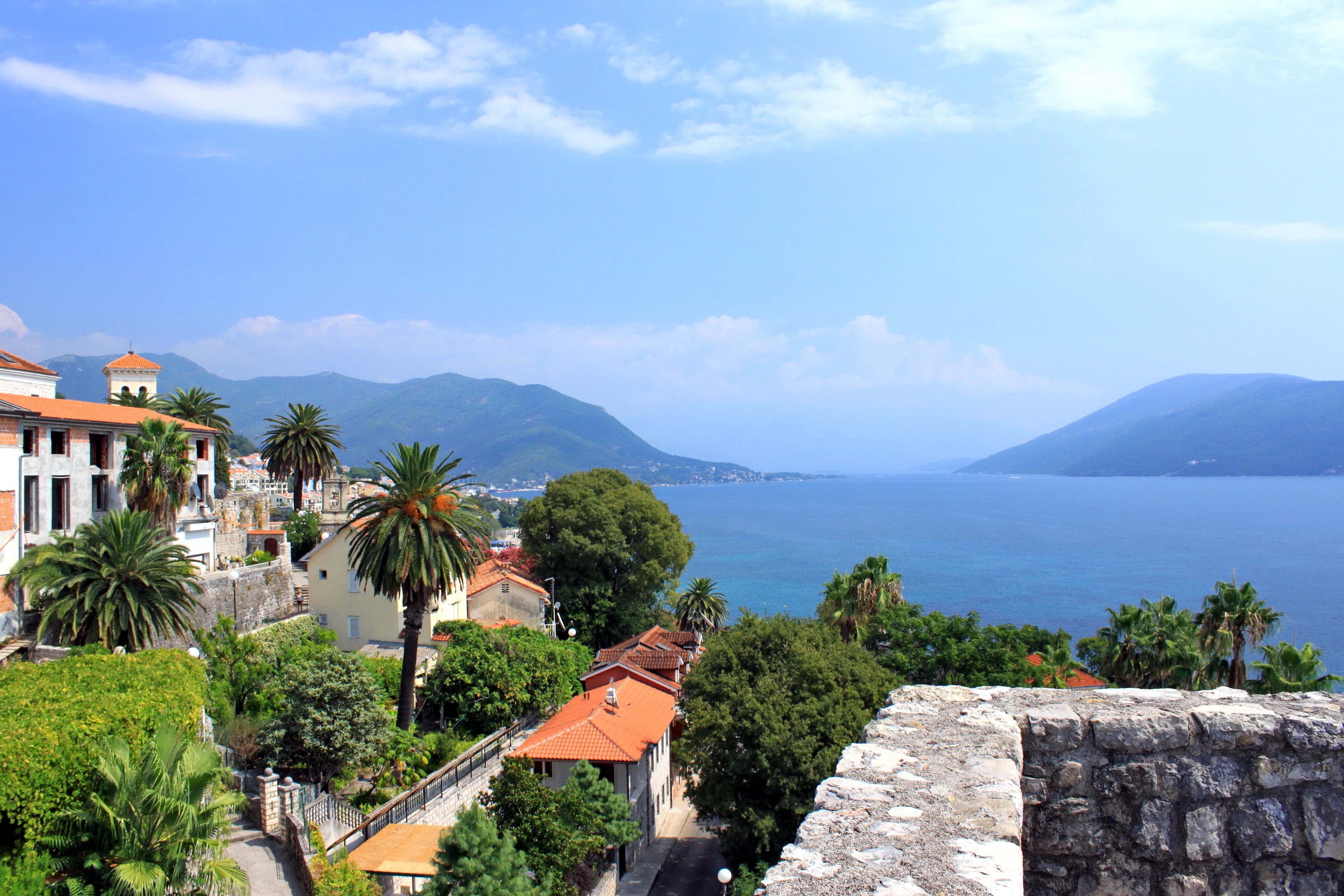 The views from the Forte Mare fortress on the city. Herceg Novi, Montenegro.